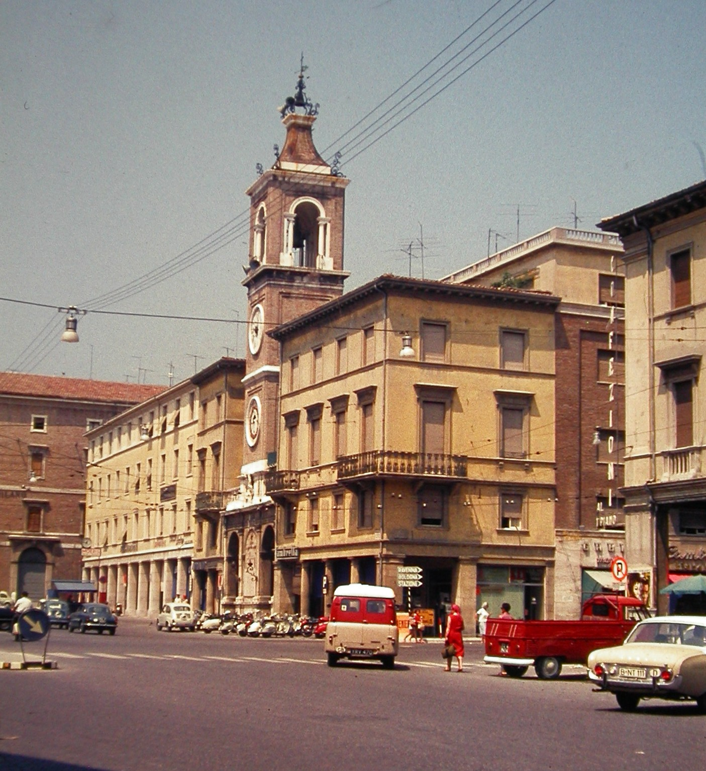 1963, Piazza Tre Martiri hosted traffic